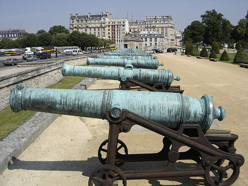 The Hôtel des Invalides, Paris, France. View of the cannons in front of the building.